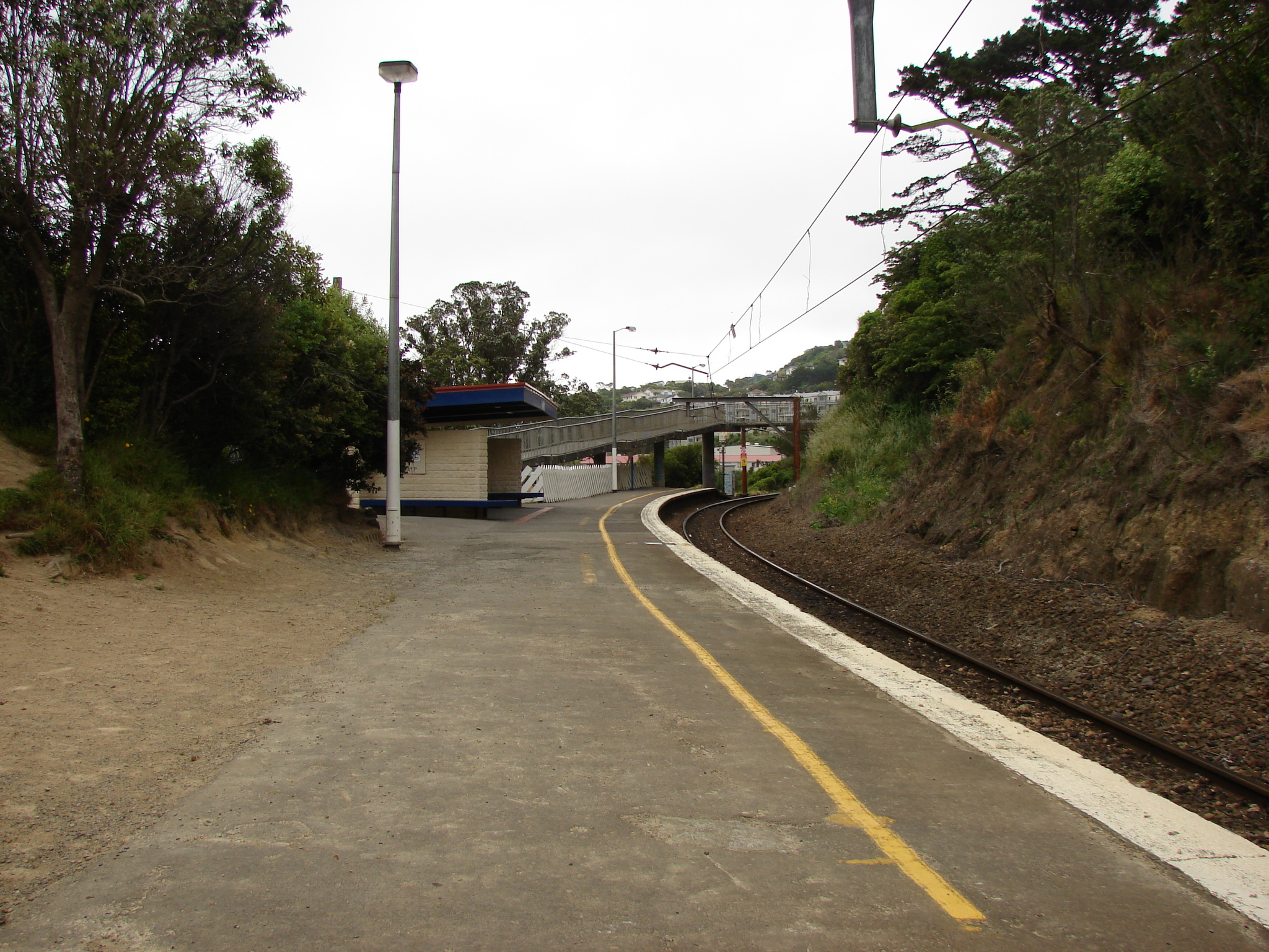 Raroa railway station, looking south. Photographed by Matthew25187 on 2007-12-17.